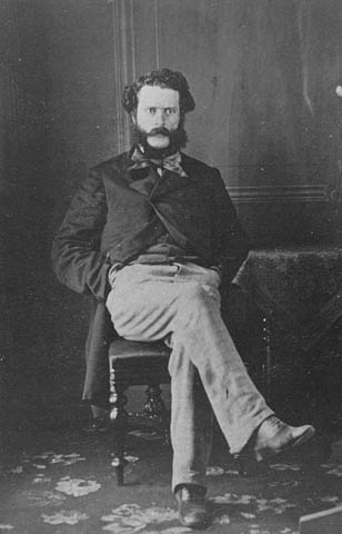 Portrait de John Robson. Source : Collections Canada This image (or other media file) is in the public domain because its copyright has expired. This applies to Australia, the European Union and those countries with a copyright term of life of the author plus 70 years. You must also include a United States public domain tag to indicate why this work is in the public domain in the United States. Note that a few countries have copyright terms longer than 70 years: Mexico has 100 years, Colombia has 80 years, and Guatemala and Samoa have 75 years, Russia has 74 years for some authors. This image may not be in the public domain in these countries, which moreover do not implement the rule of the shorter term. Côte d'Ivoire has a general copyright term of 99 years and Honduras has 75 years, but they do implement the rule of the shorter term. This file has been identified as being free of known restrictions under copyright law, including all related and neighboring rights.